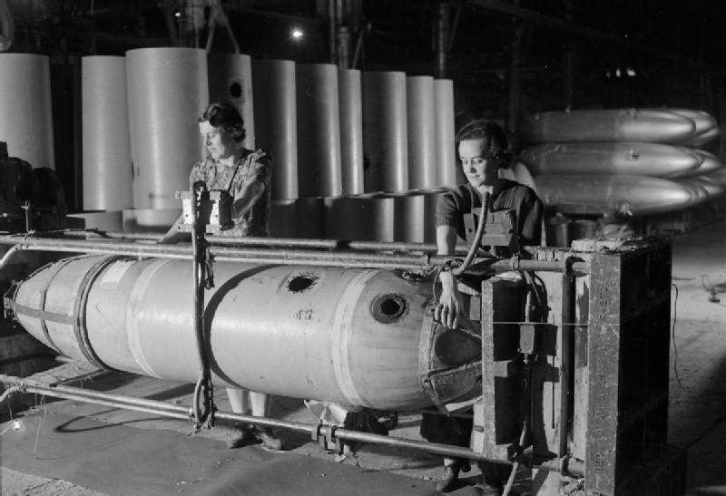 Jettison Petrol Tanks- the Production of Jettison Tanks For USE by the United States Army Air Force and Royal Air Force, Britain, 1944 At a factory producing jettison petrol tanks for the American and Royal air forces, somewhere in Britain, Miss Ethel Prett (left) and Miss Nellie Robery work at a large press which forces the two spigotted ends onto the body of the tank. Behind them, a large stack of tanks can be seen.